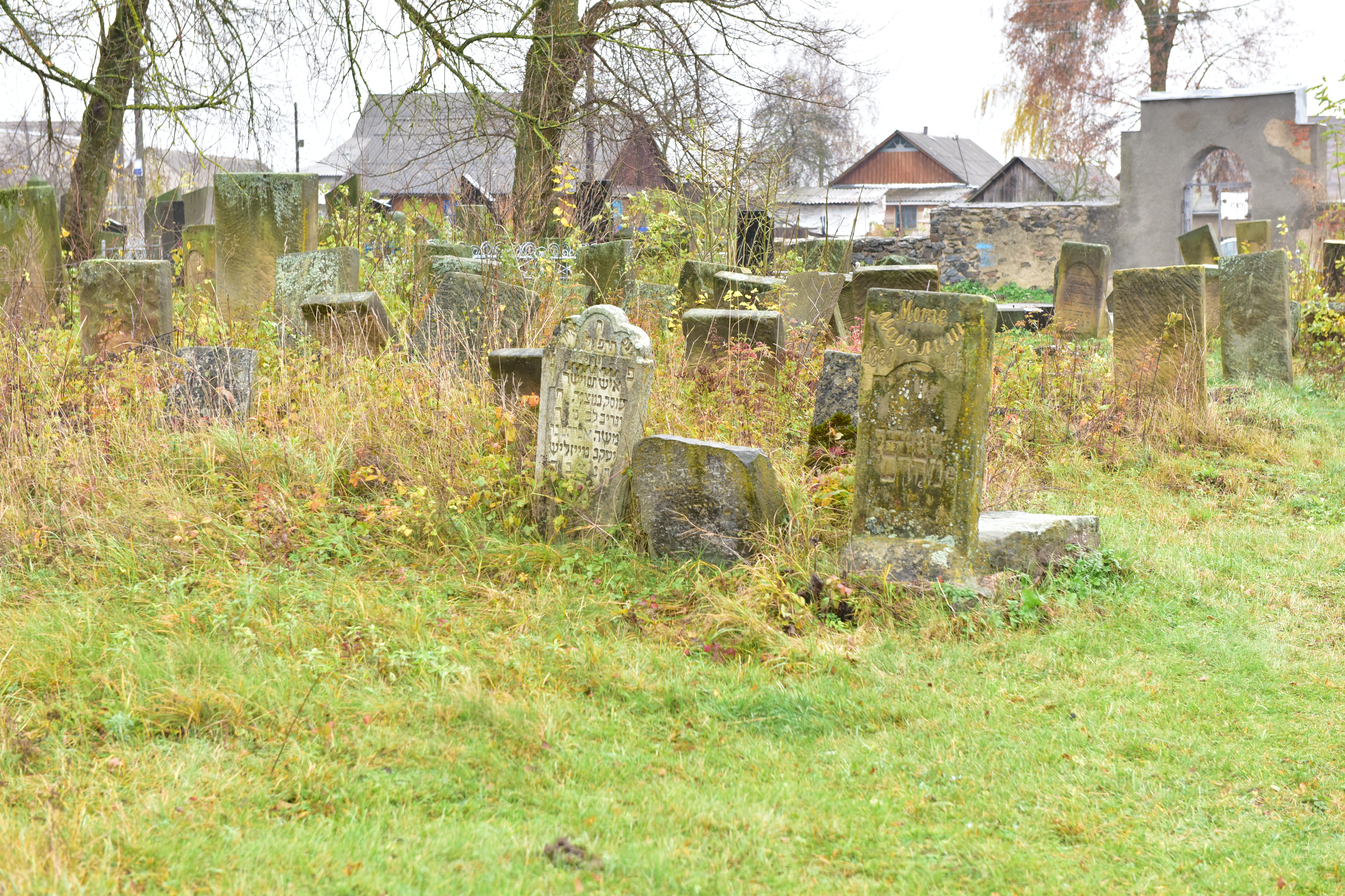 Jewish cemetery in Polonny ייִדיש: יידישער קמיע אין פּאָלאָנני